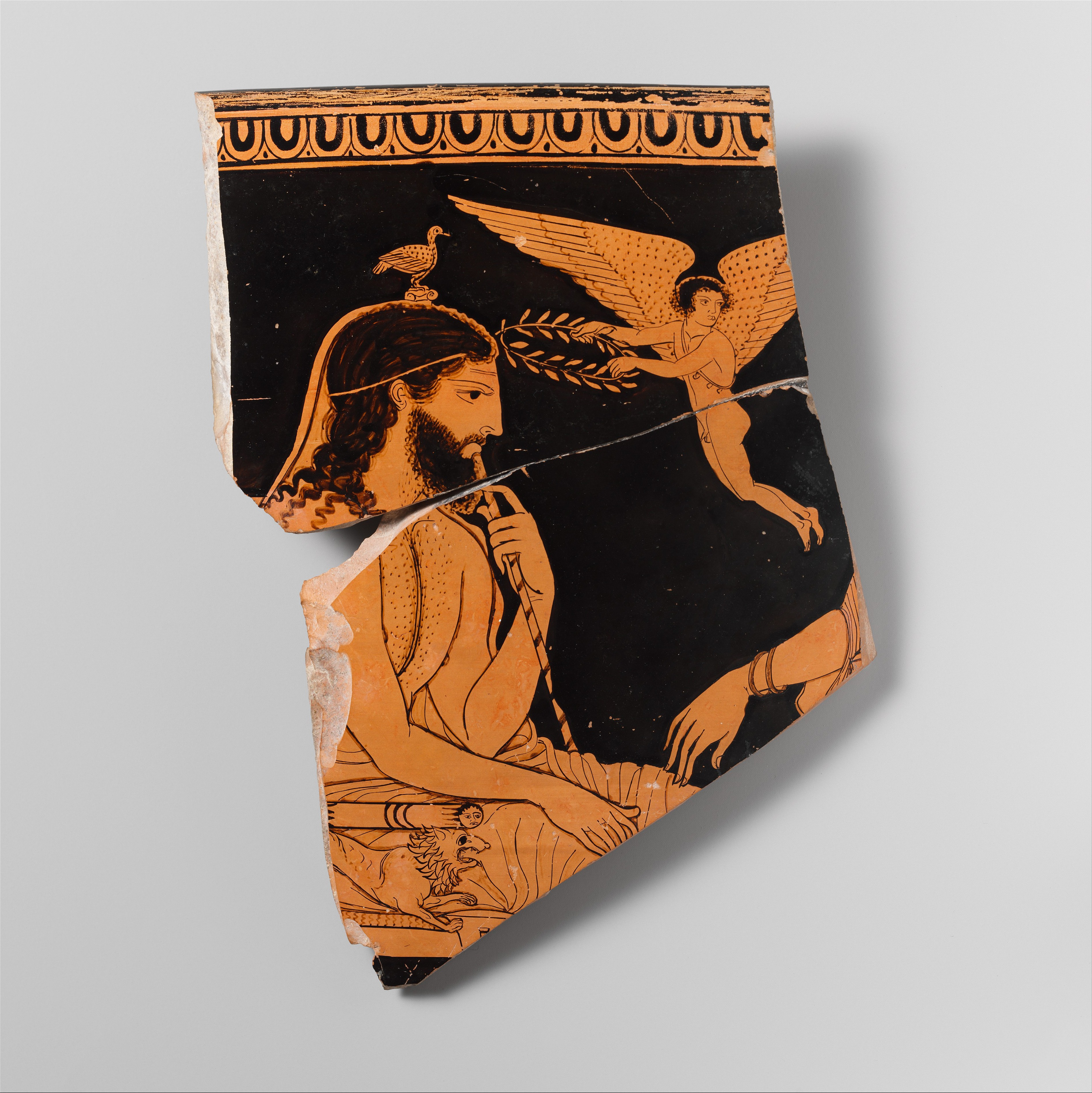 Greek, South Italian, Lucanian; Skyphos fragment; Vases